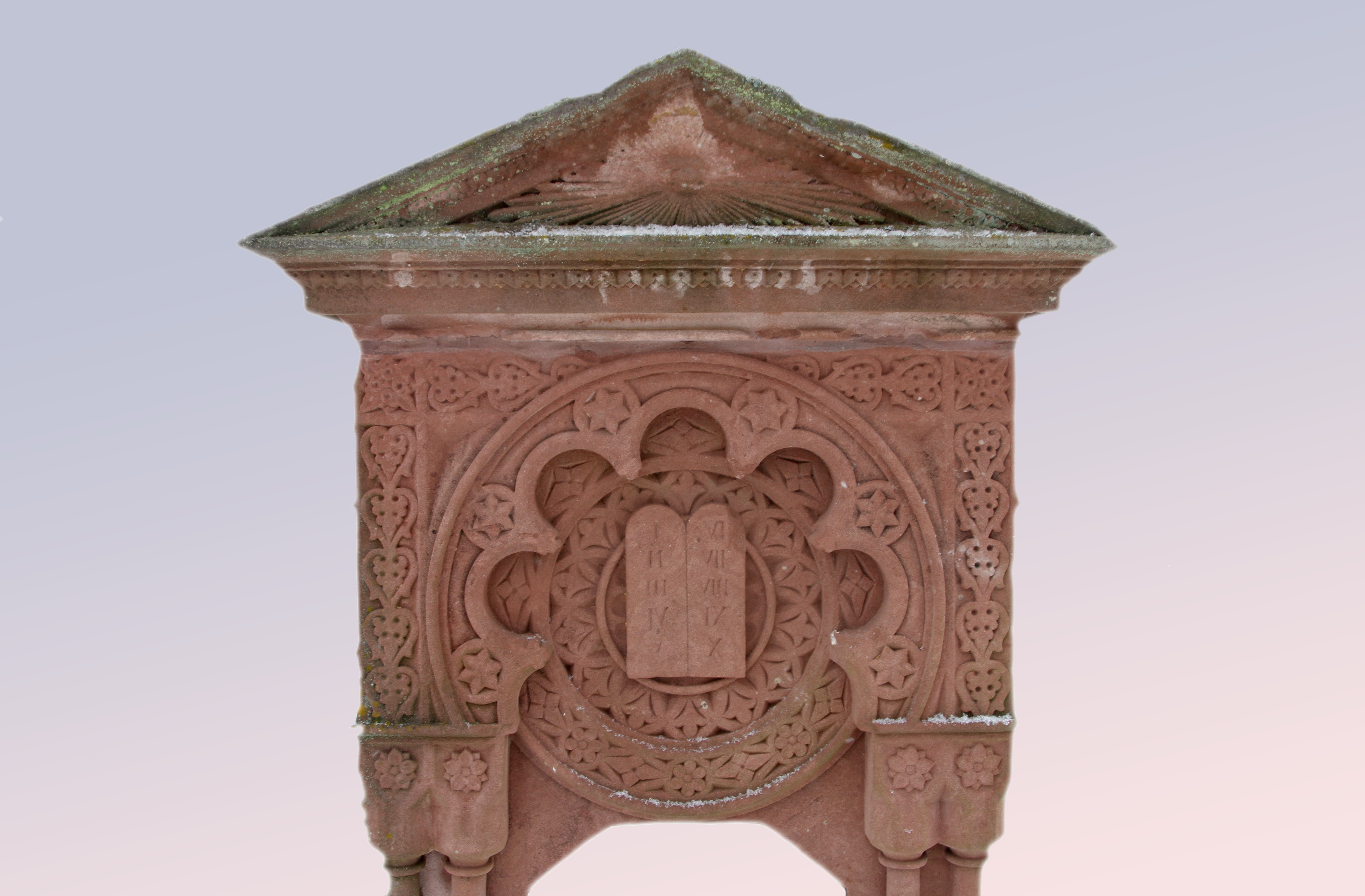 Jewish cemetery in Busenberg, Rhineland-Palatinate, Germany